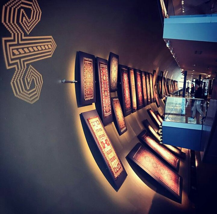 Xalça